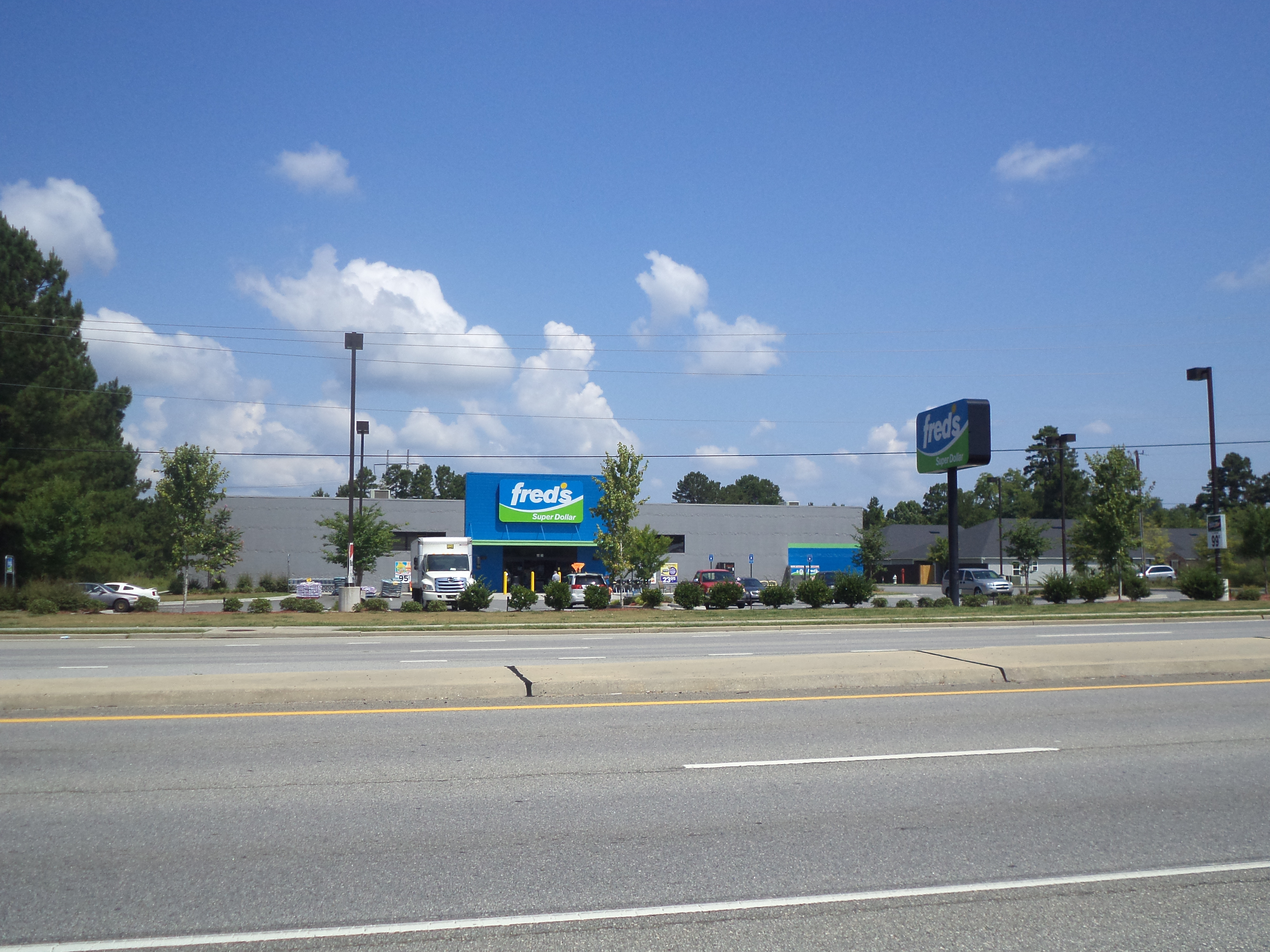 Fred's, 4401 Bemiss Rd., Lowndes County, Georgia